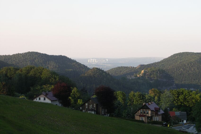 Hain, Saxony, Germany